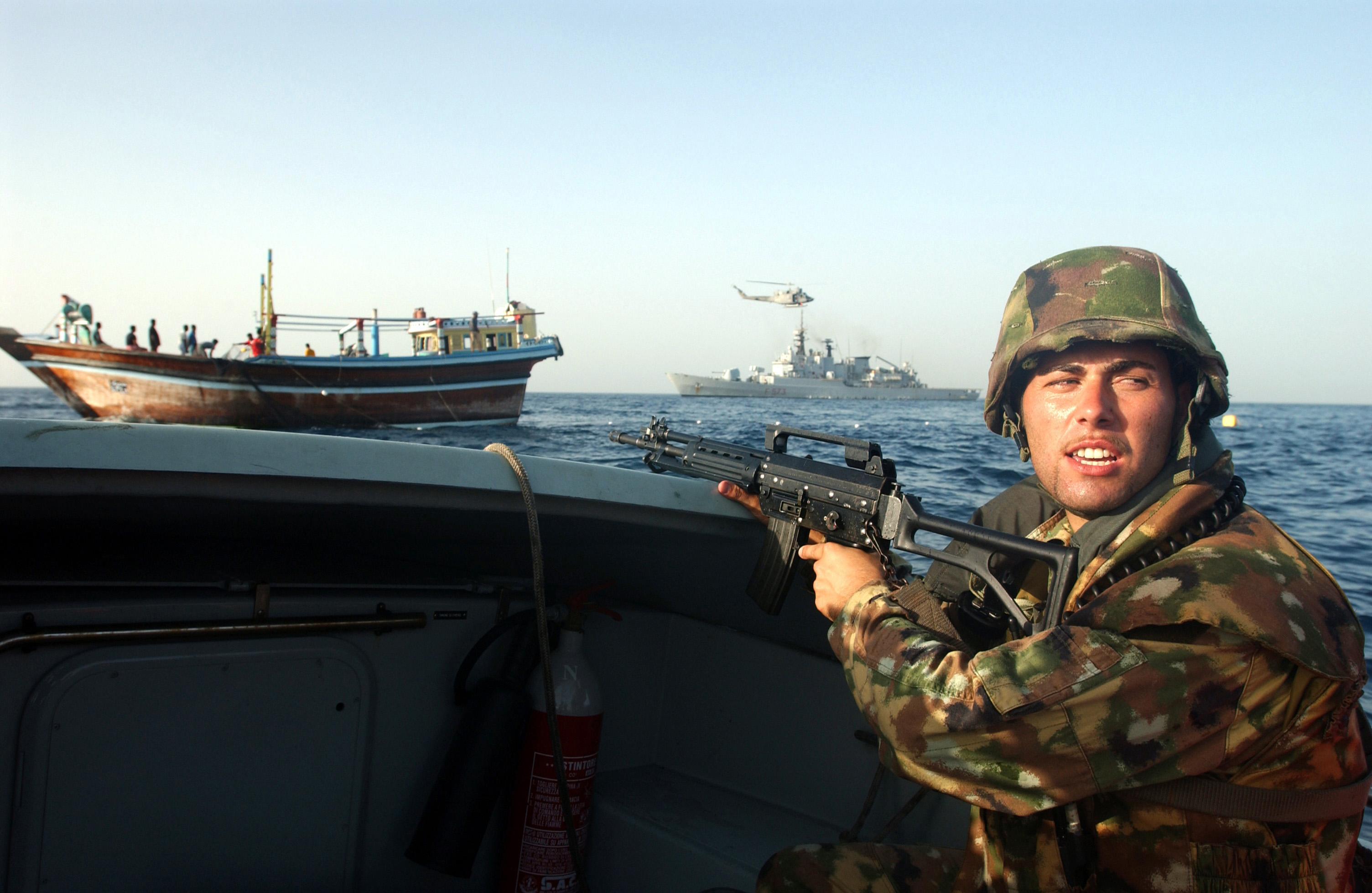 Onboard a patrol boat, an Italian Marine, with a Beretta 5.56 mm SC70/90 assault rifle, from the Italian Maestrale class frigate, ITS SCIROCCO (F 573), in the background, sets security for his team to safely board a local cargo dhow to conduct a search of the vessel. SCIROCCO, along with an AB212ASW helicopter, remains close by to provide additional security and guidance to the boarding team. The multinational Combined Task Force 150 (CTF-150) established to monitor, inspect, board, and stop suspect shipping to pursue the war on terrorism, and includes operations currently taking place in the North Arabia Sea to support Operation IRAQI FREEDOM. Countries contributing to CTF-150 currently include Australia, Canada, France, Germany, Italy, Pakistan, New Zealand, Spain, United Kingdom and the United States.